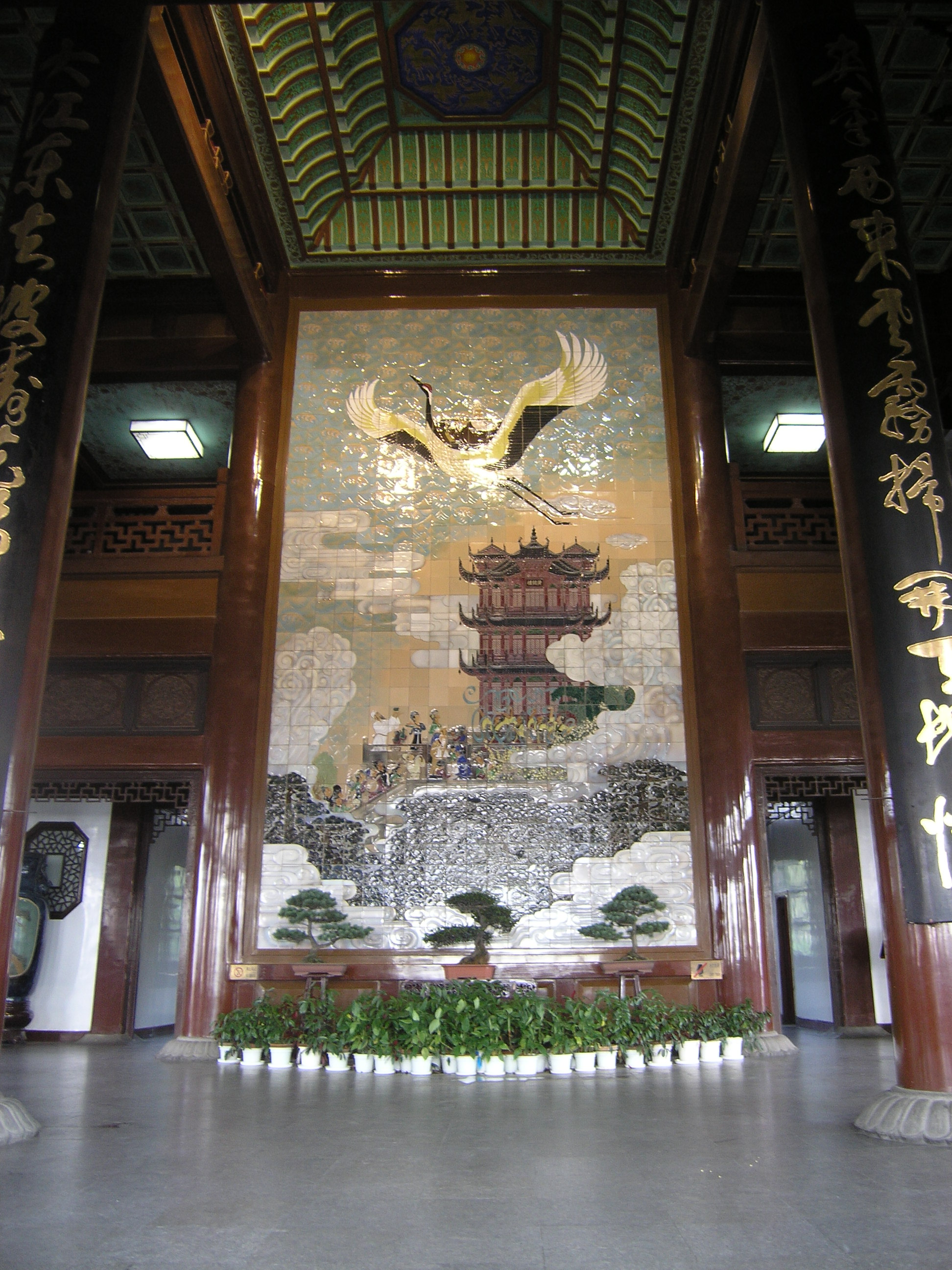 Description: Interior of Yellow Crane Tower, Wuhan, China Source: Photograph by myself Date: August 2004 Photographer: m1la